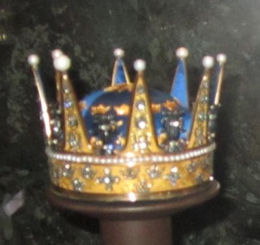 Coronet of a Princess of Sweden made for Princess Sophia Albertina in the early 1770s as shown to public on National DayPlace: Royal Treasury, Stockholm Palace, Sweden